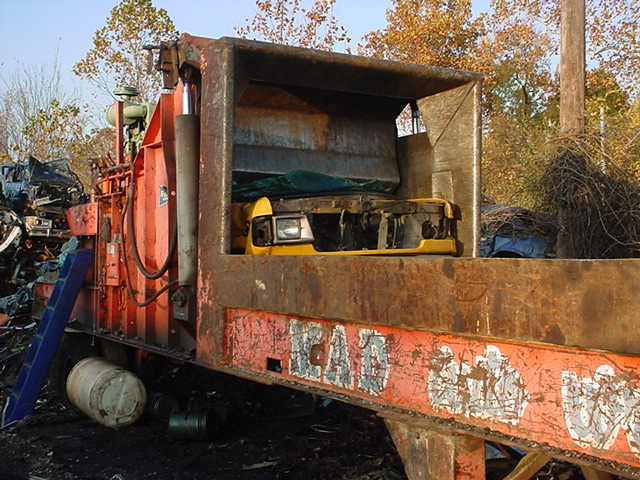 This photo shows a Ford van in the process of being crushed, November 6, 2005, in St. Louis, MO.